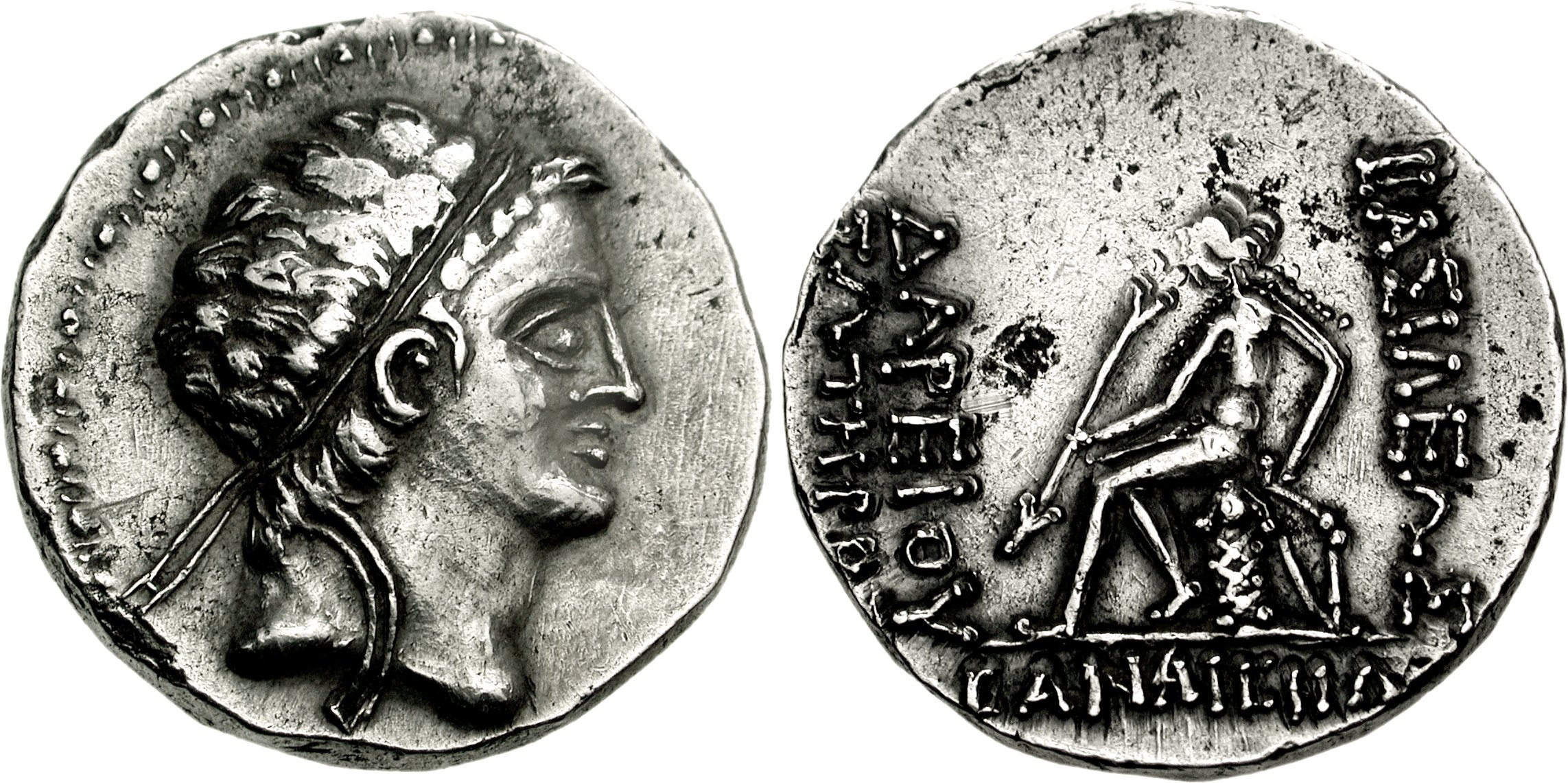 Coin of the king Dareios from Elymais